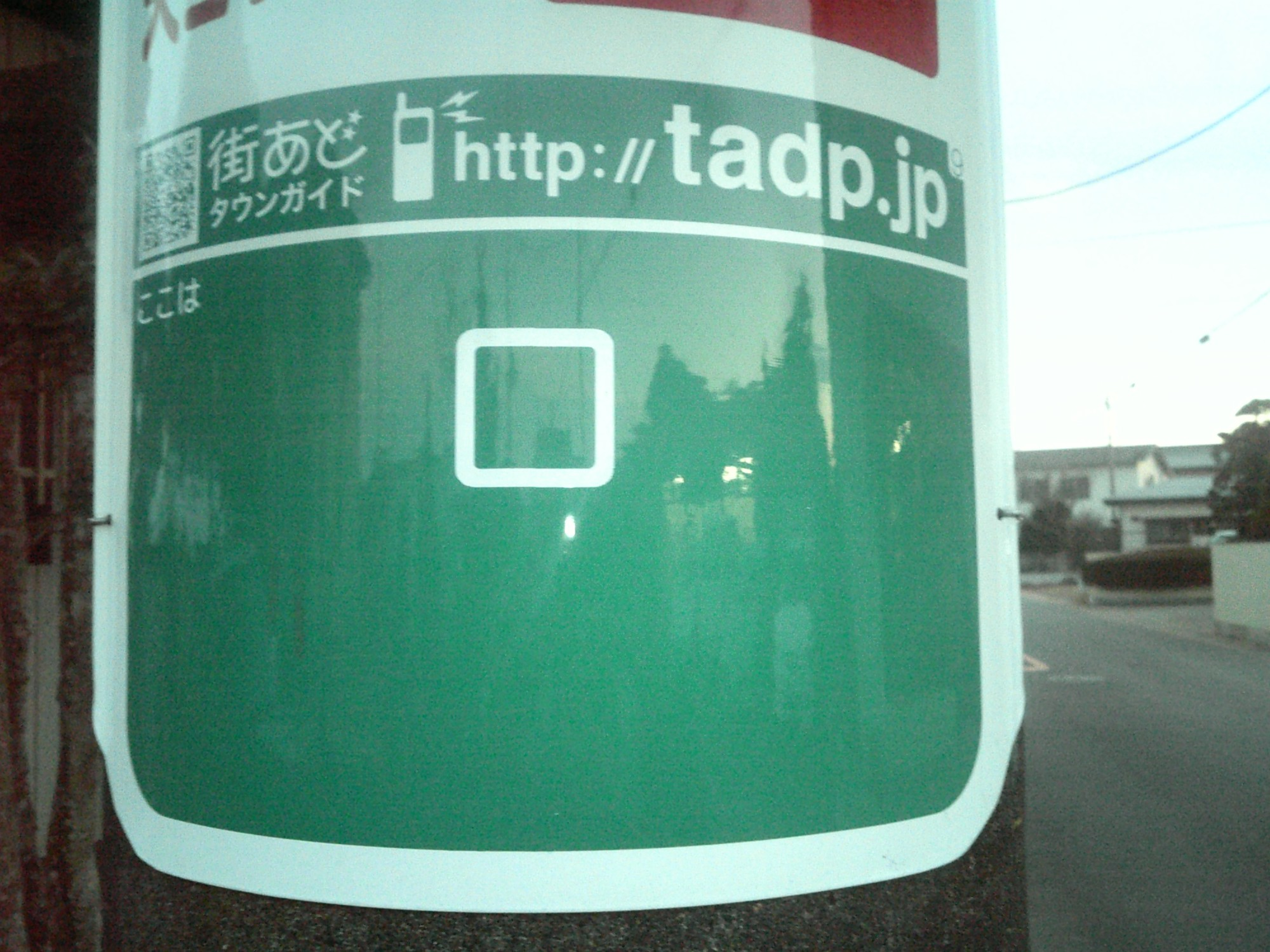 A signpost on a utility pole. "ロ"("Ro") means the place name, Ro, Asahi city, Chiba prefecture, Japan.（千葉県旭市ロ） It is the shortest place name in Japan. (これは日本一短い地名である。)